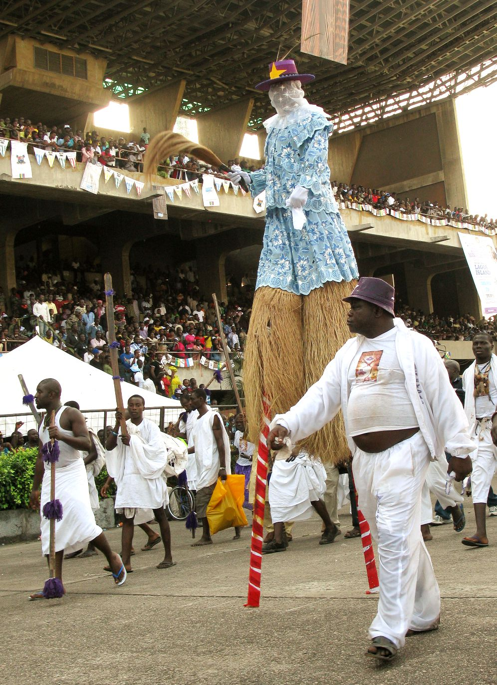 A performer on stilts as part of the Eyo Agere Molokun procession parading in the Teslim Balogun Stadium in Lagos, as part of the Eyo festival.